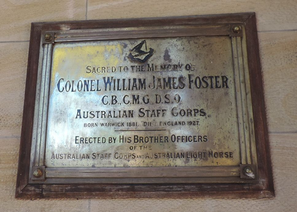 Memorial to Colonel William James Foster, Warwick Town Hall, Palmerin Street, Warwick, 2015